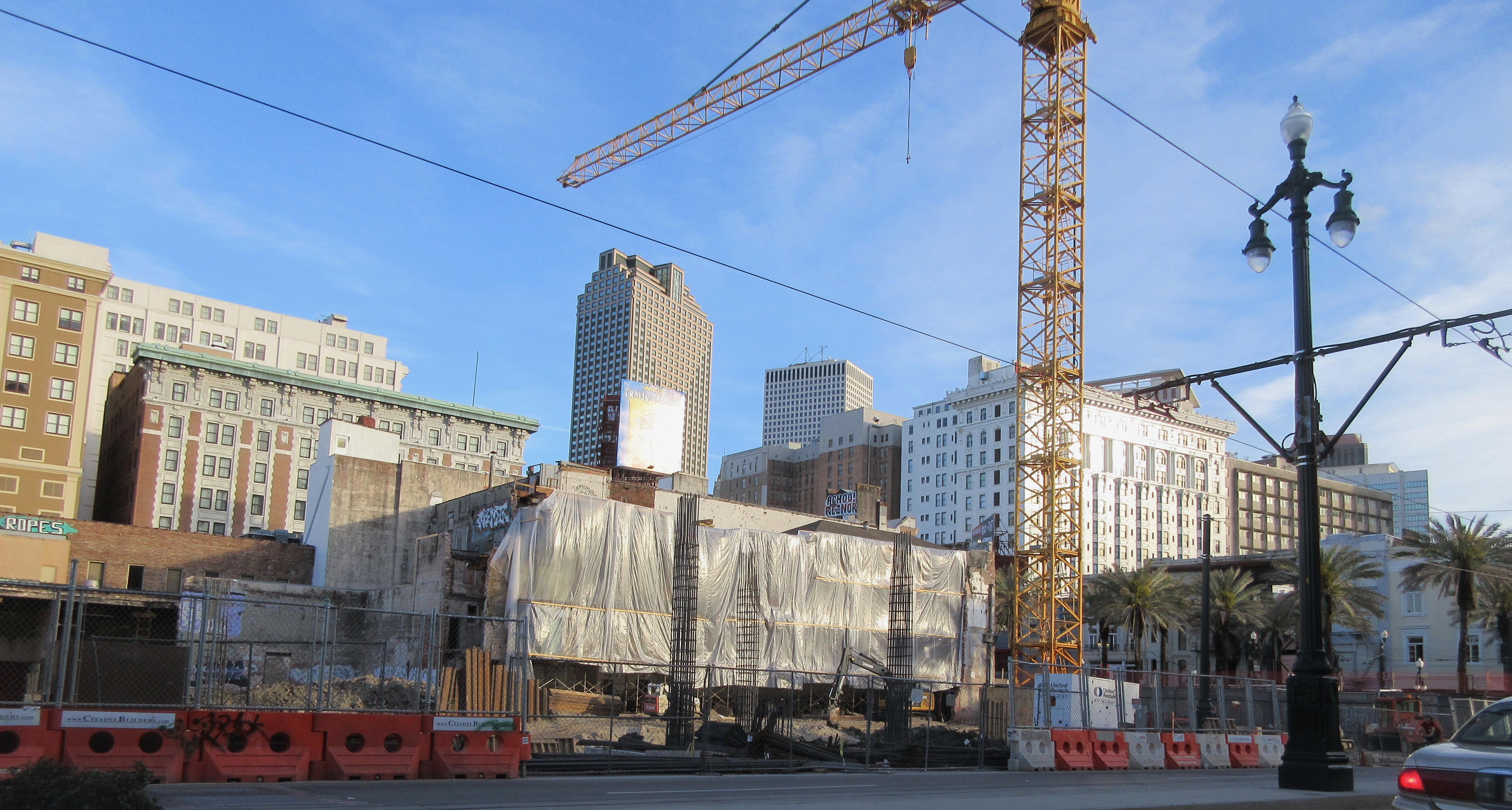 Construction in New Orleans at Rampart & Canal Streets